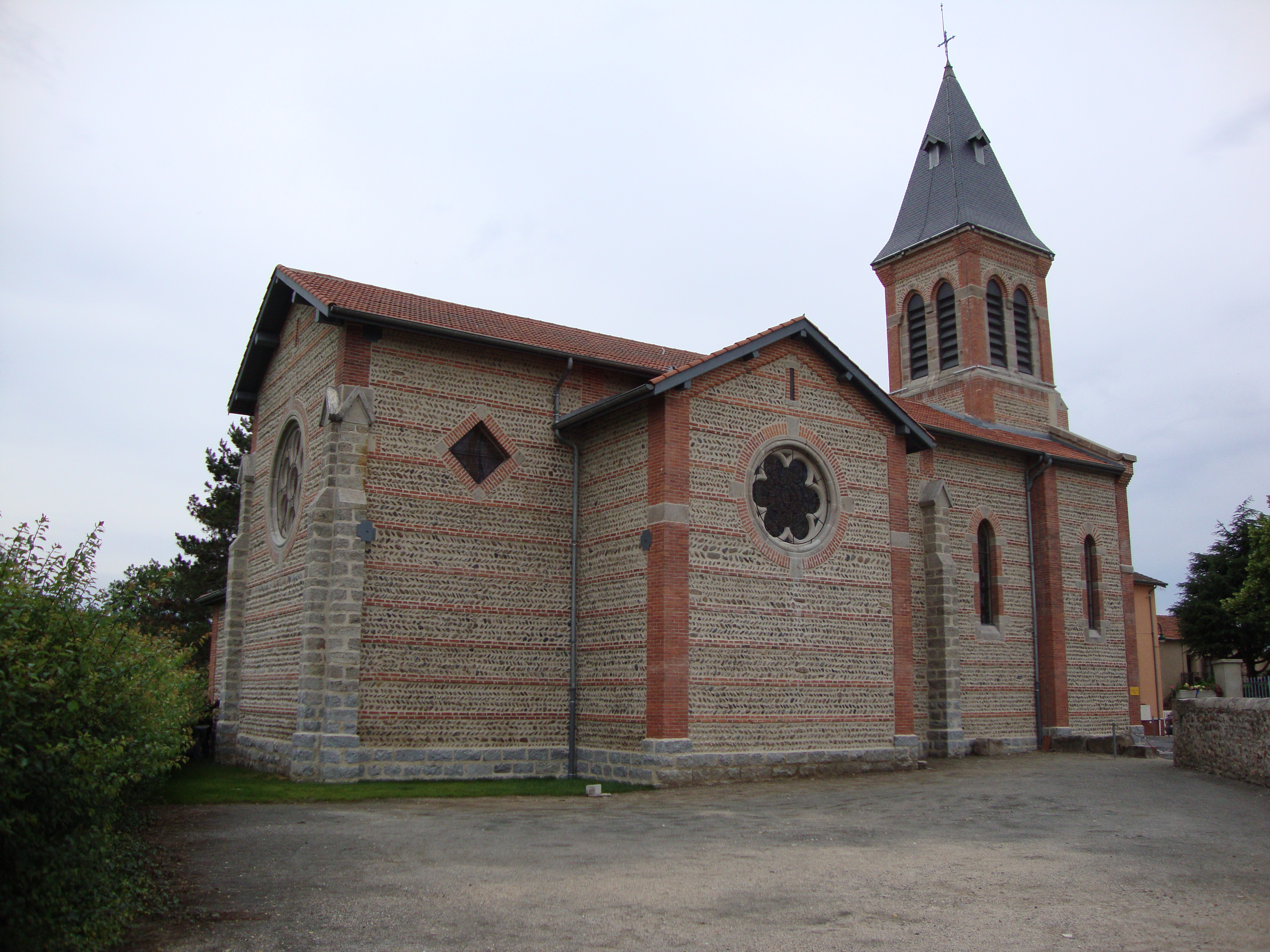 Rivas (Loire, Fr) church, side view